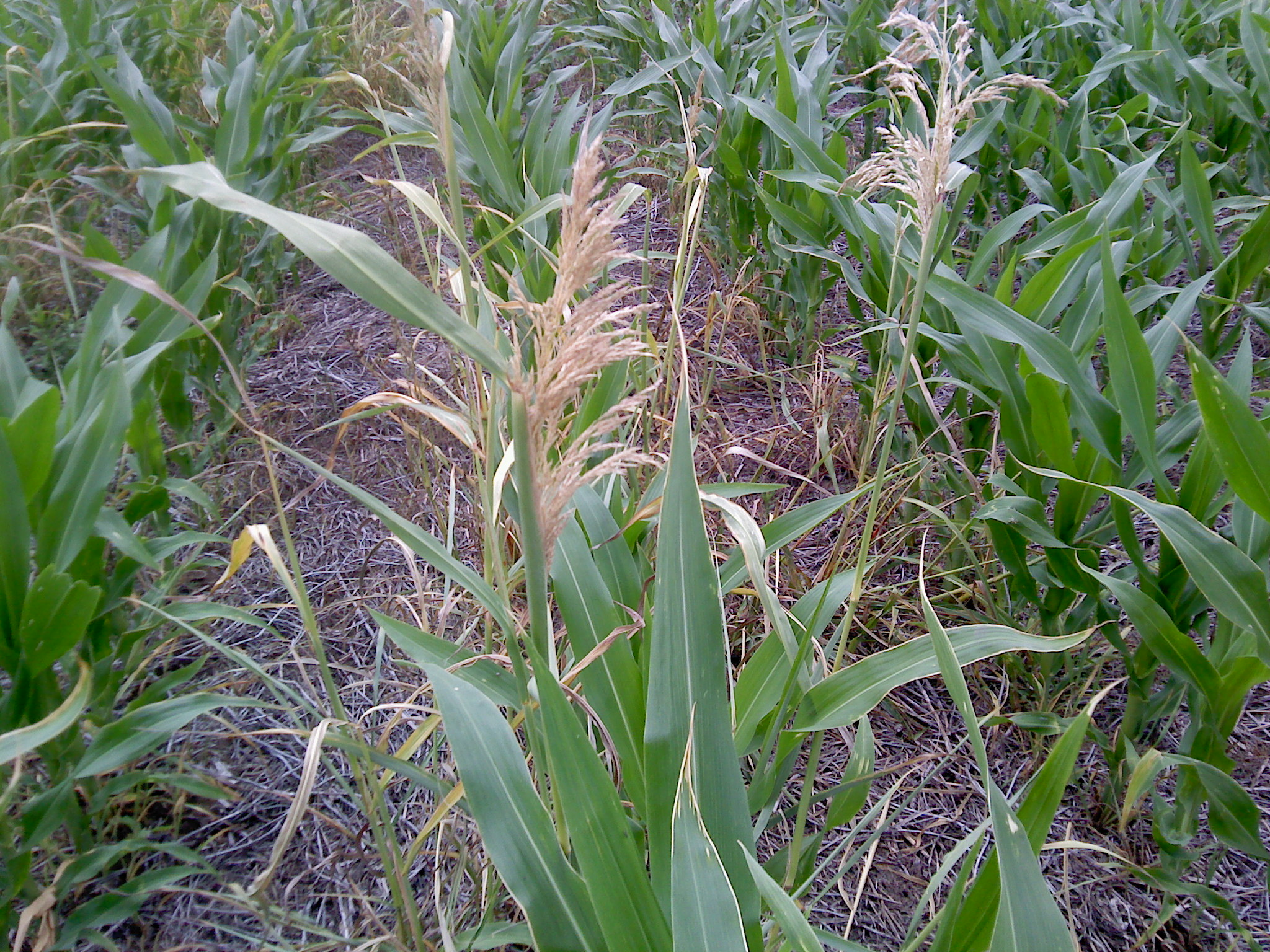 Roundup Ready (RR) maize/corn.